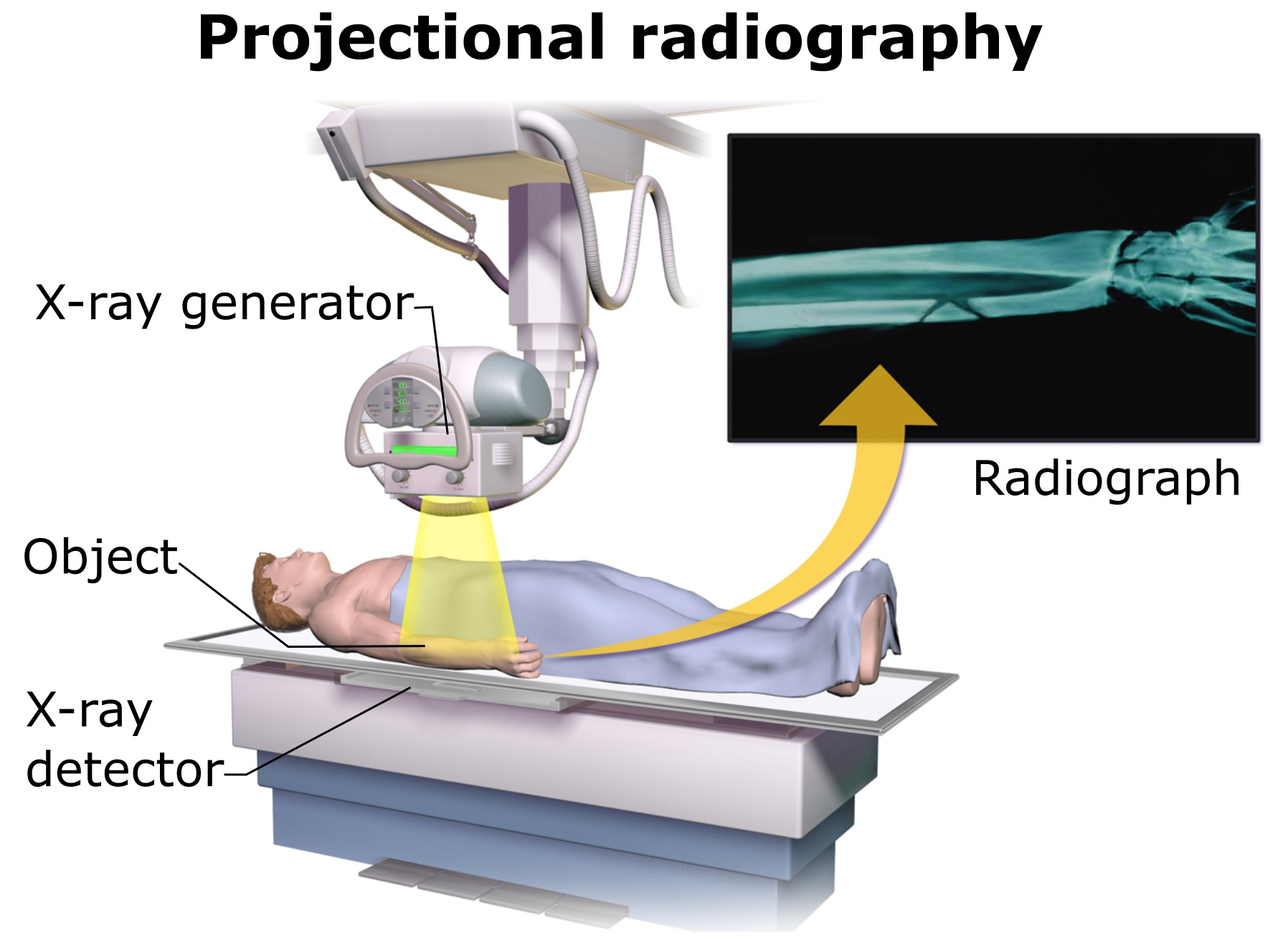 Components of projectional radiography, including X-ray generator and detector.